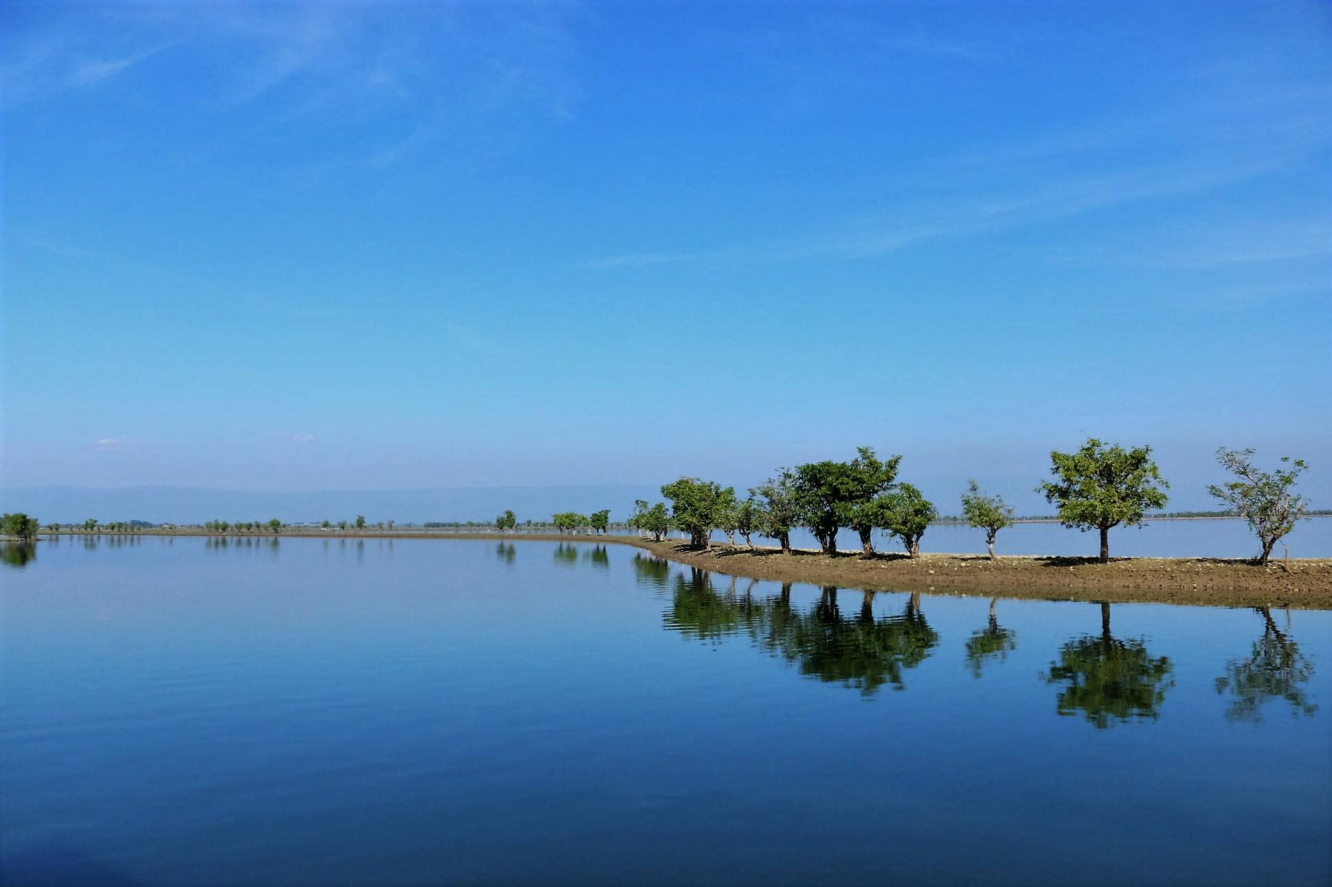 Beautiful Sunamganj